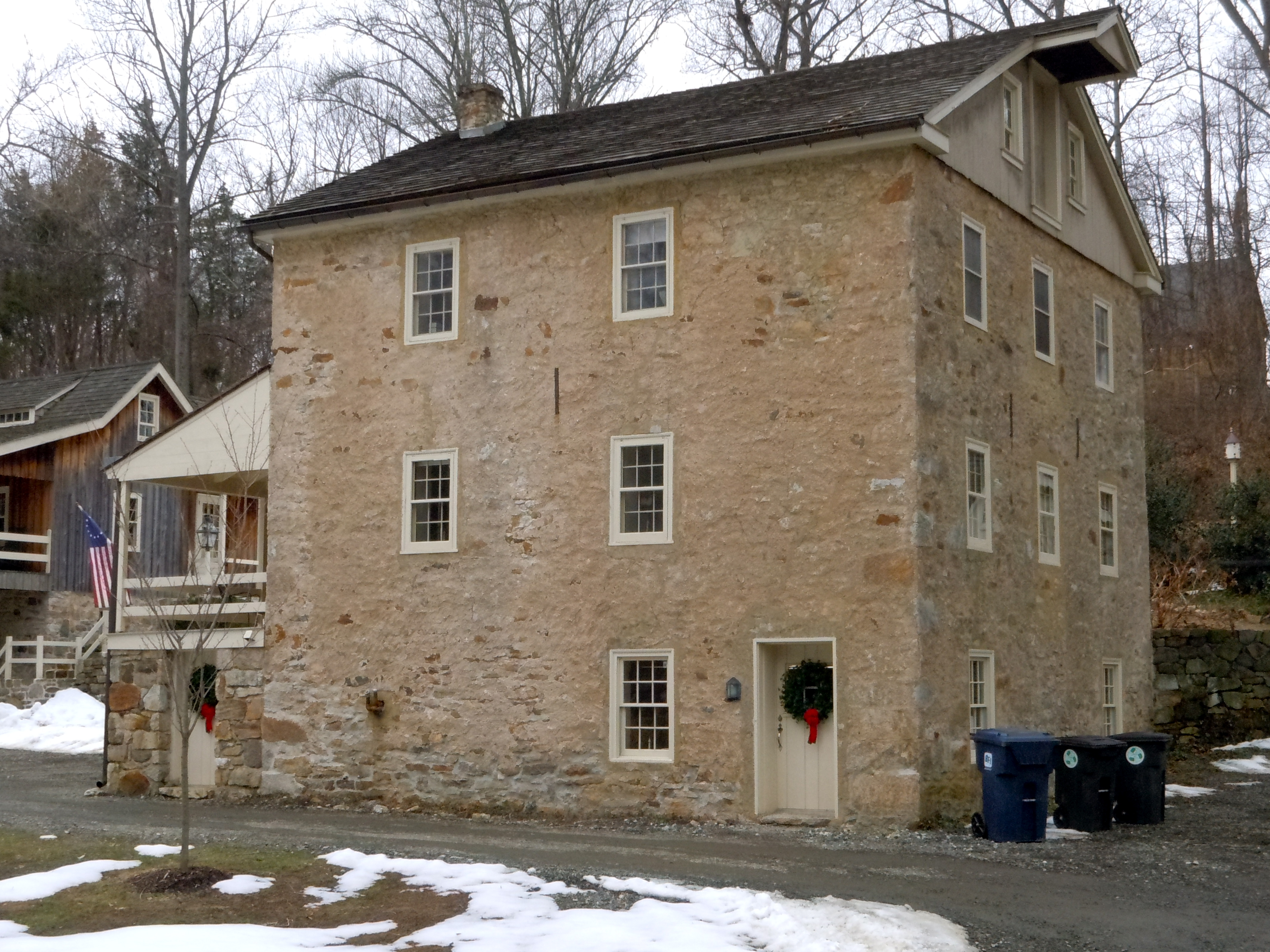 Clinger-Moses Mill Complex on the NRHP since July 17, 1980. South of Chester Springs on Pine Creek Lane in West Pikeland Township, Chester County, Pennsylvania